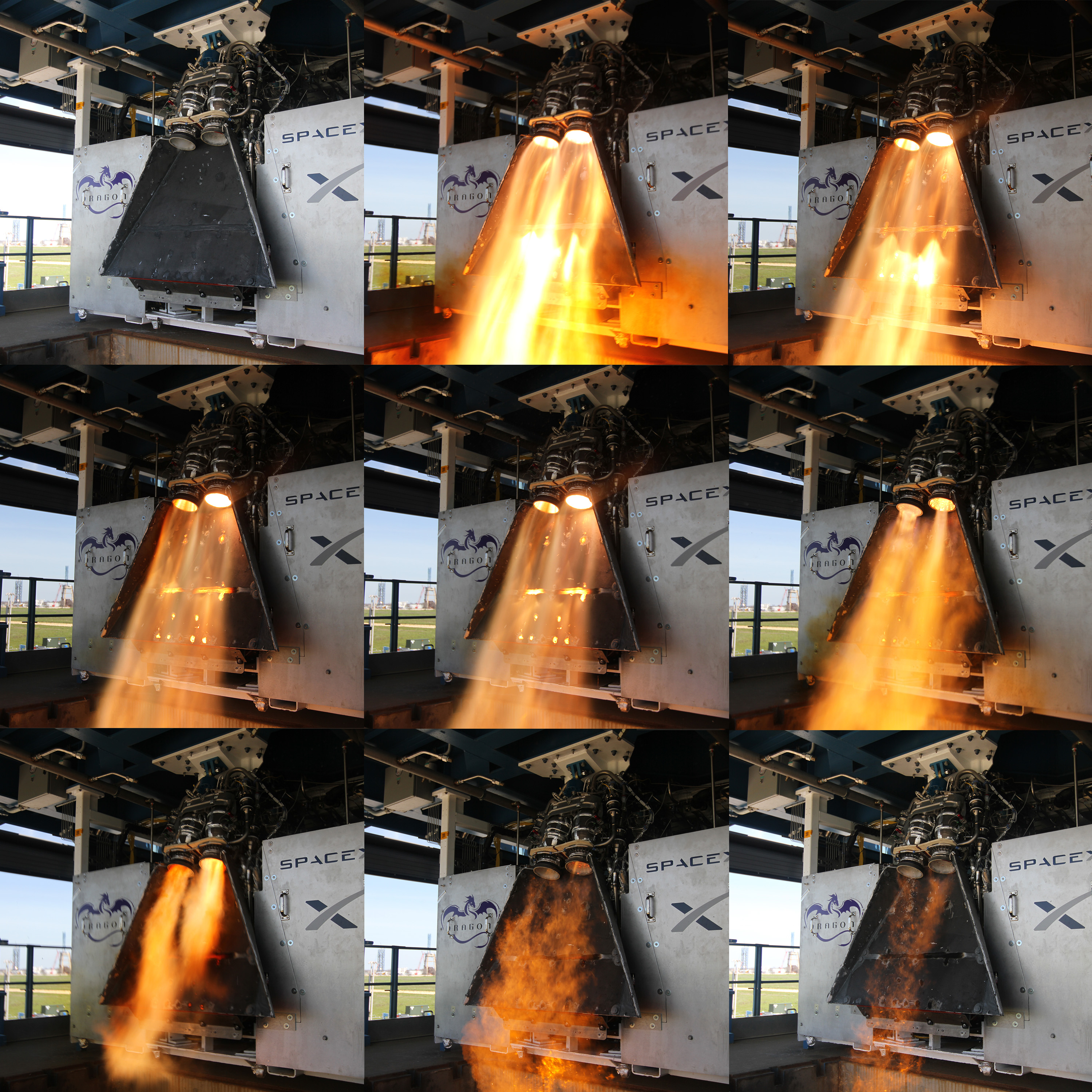 Test mosaic of a SuperDraco pod, which will be used in the Crew Dragon spacecraft as a launch escape system as well as a propulsive landing system. The assembly includes two individual engines.